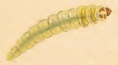 Stainton’s Natural History of the Tineina (1855–1873): Phylloporia bistrigella